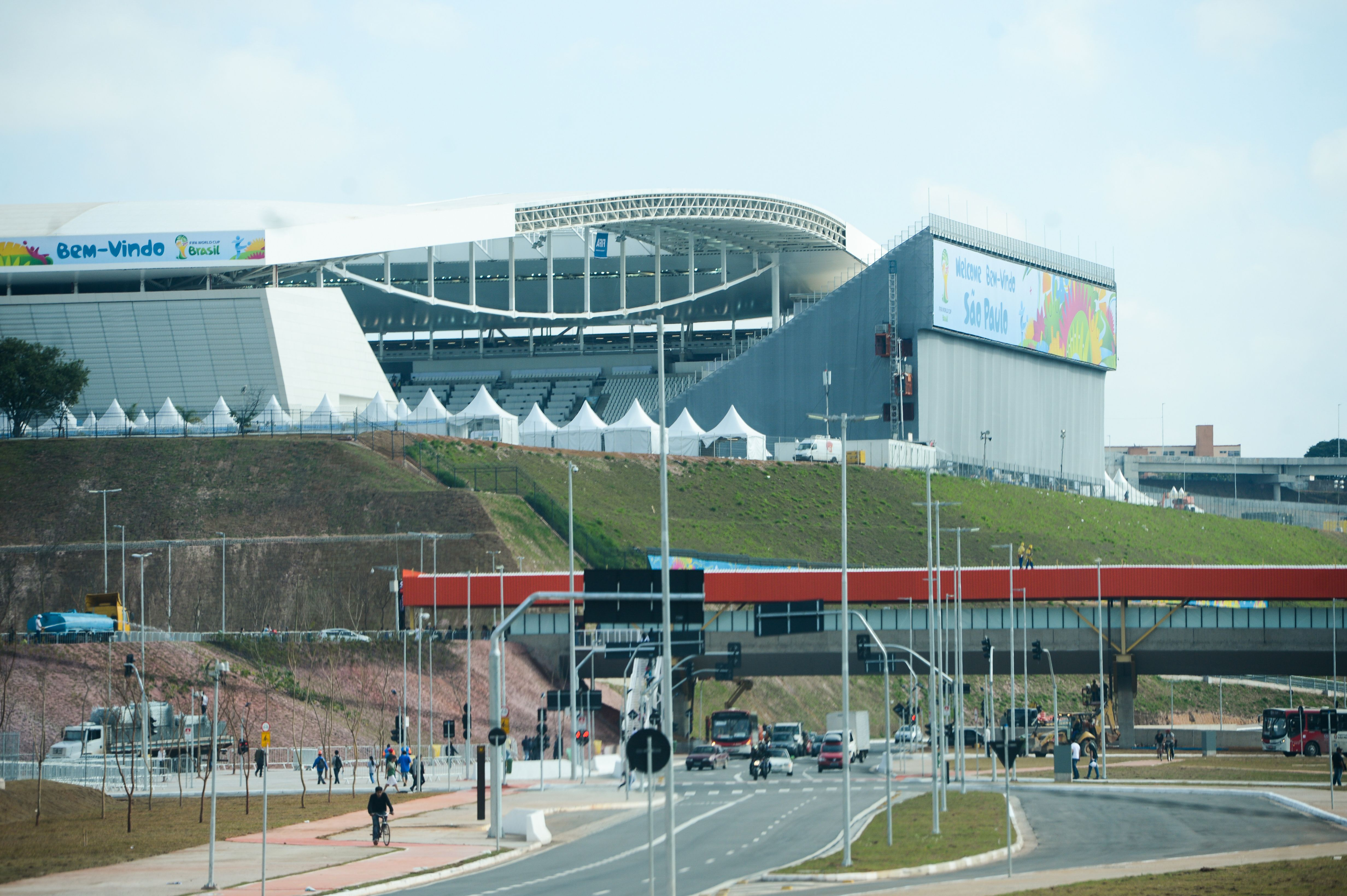 Surroundings from Arena Corinthians one day before the opening of The 2014 World Cup.